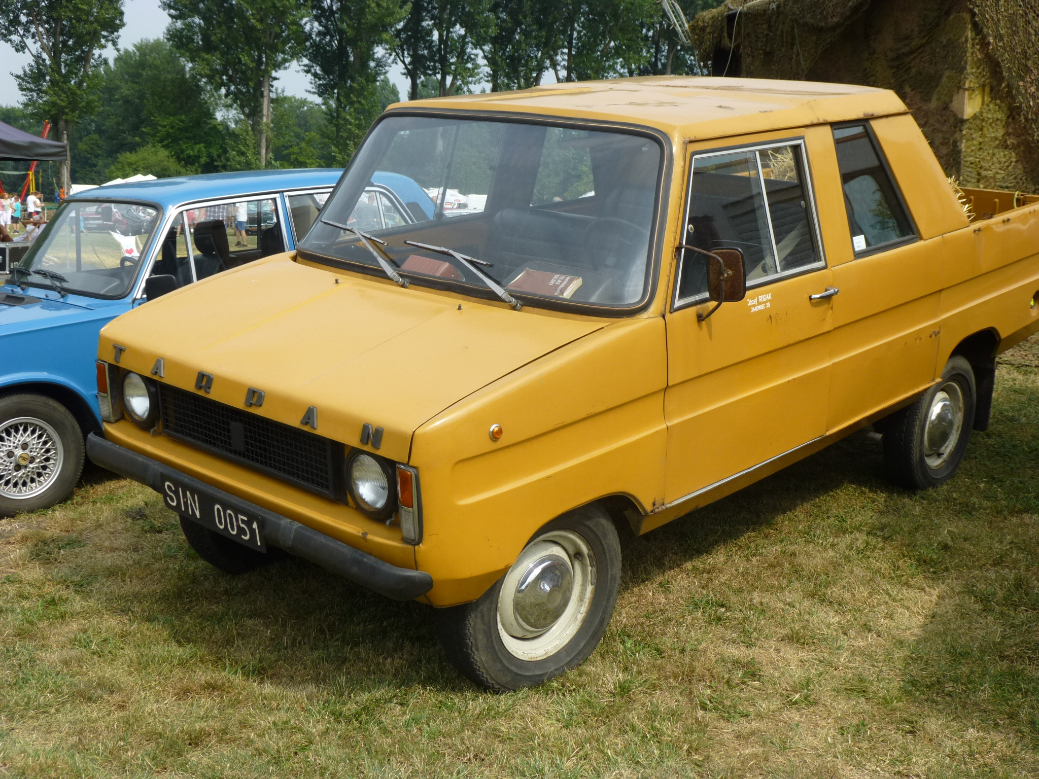 Tarpan 233 SO at 2015 Motoclassic Wrocław